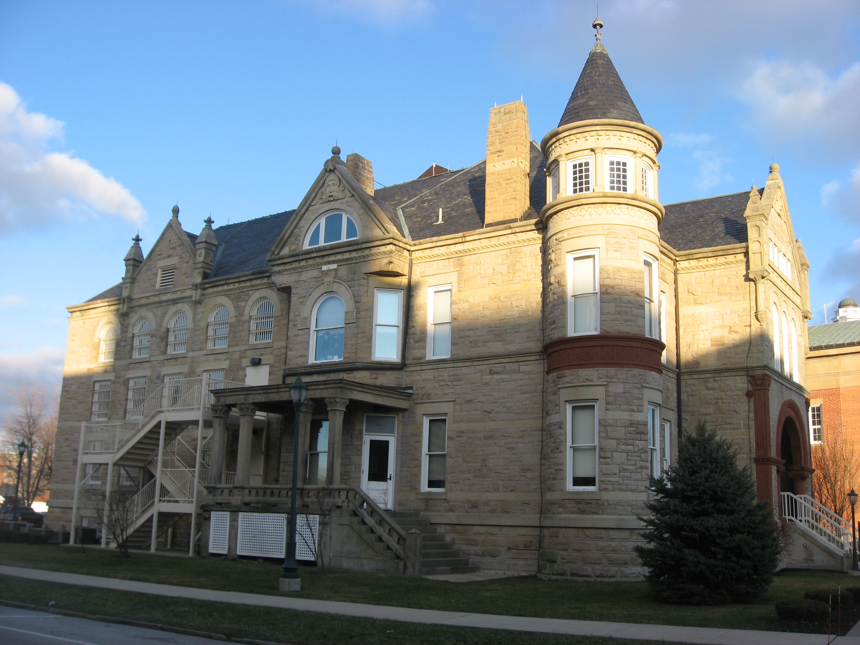 Western side and front of the Sandusky County Jail and Sheriff's House, located at 622 Croghan Street in Fremont, Ohio, United States. Built in 1890, it is now a county office building.